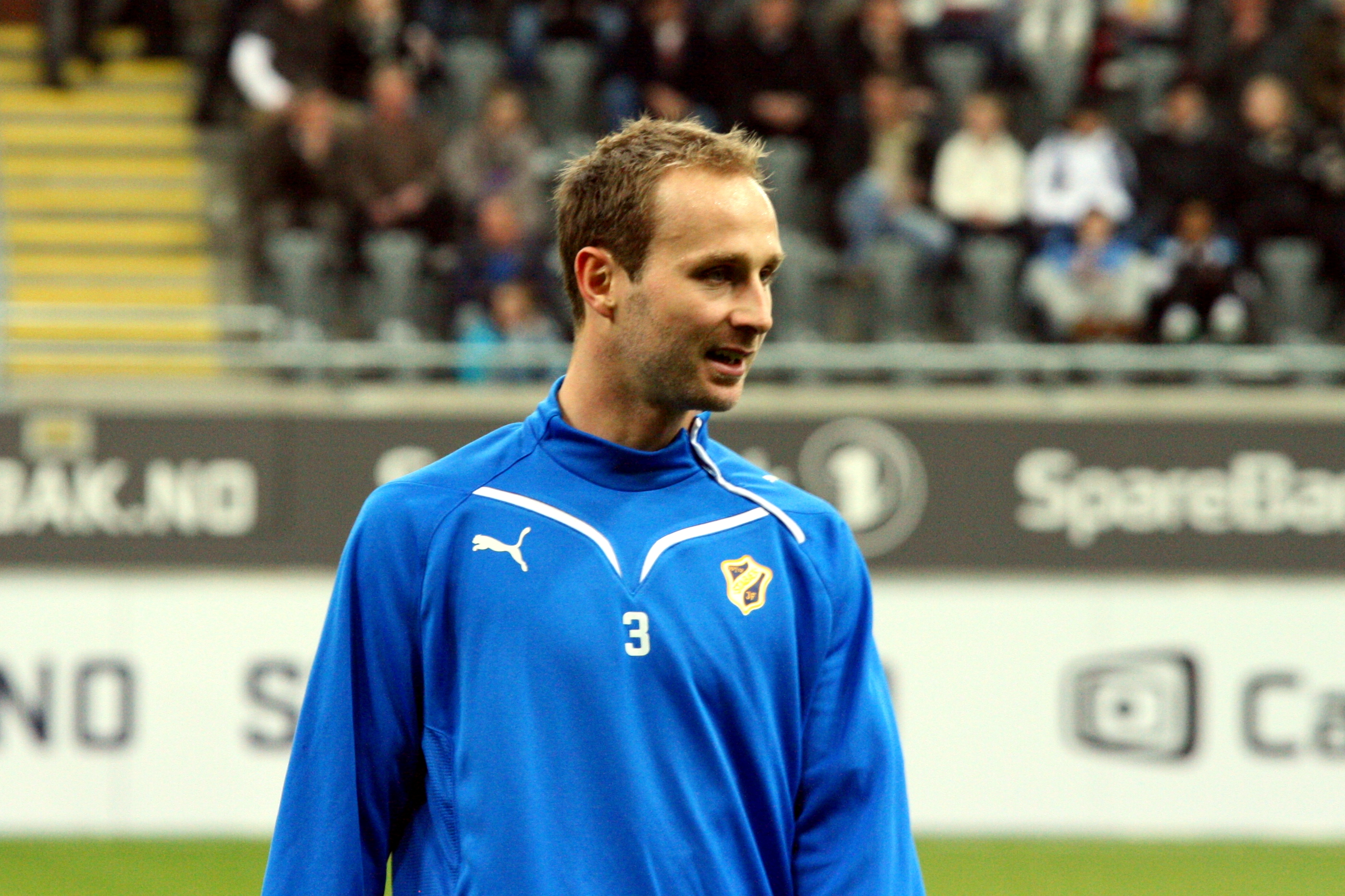 Norwegian footballer Jon Inge Høiland.